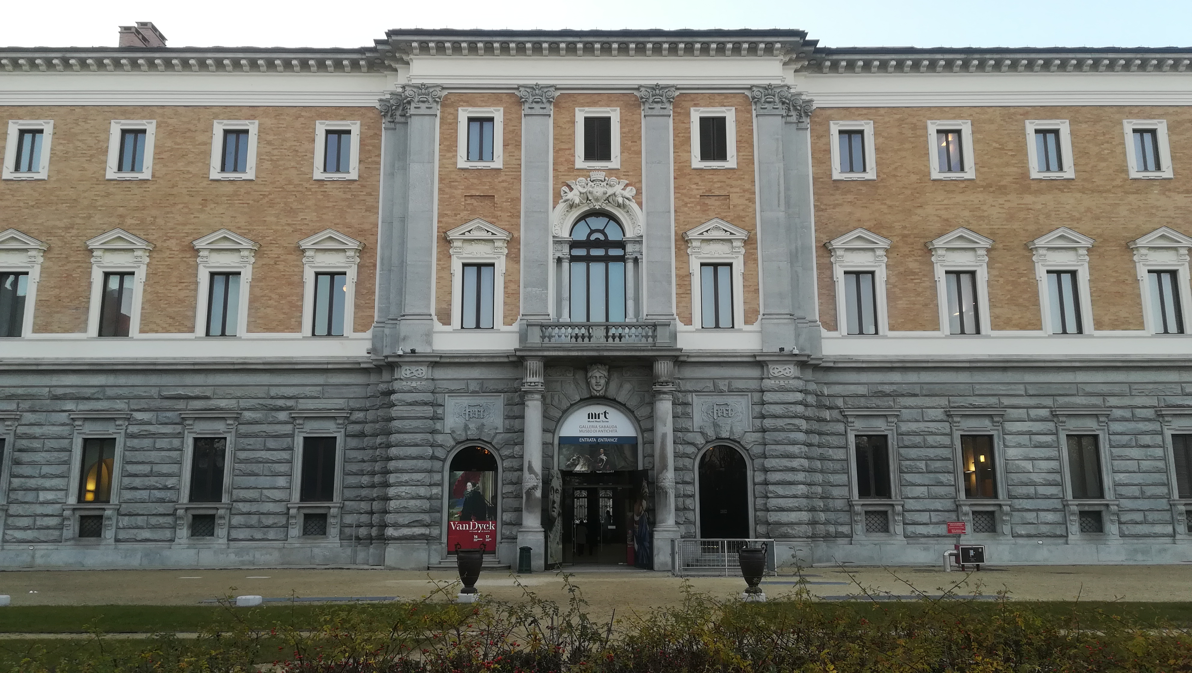 The entrnce if the museum from the Royal Gardens